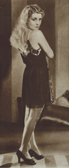 Jeannette Loff (1906-1942)